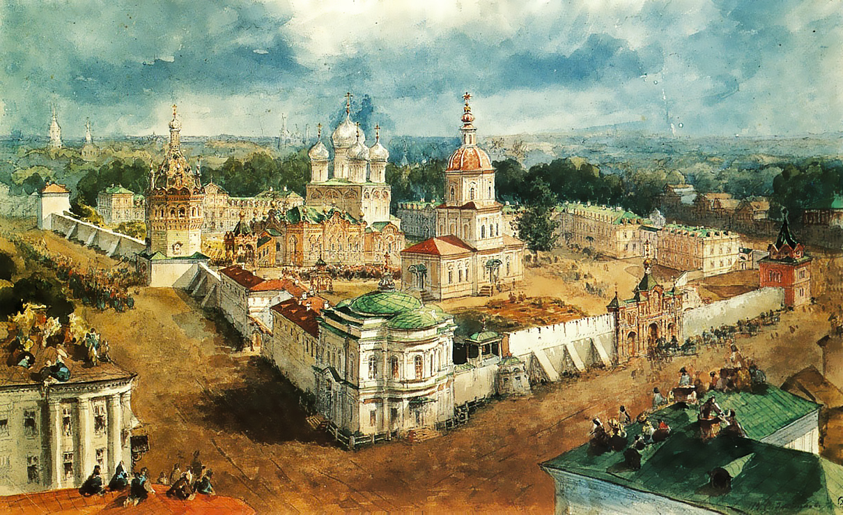 V. Sadovnikiv. Bogojavlensky Anastadjin Monastery in Kostroma. After 1865.